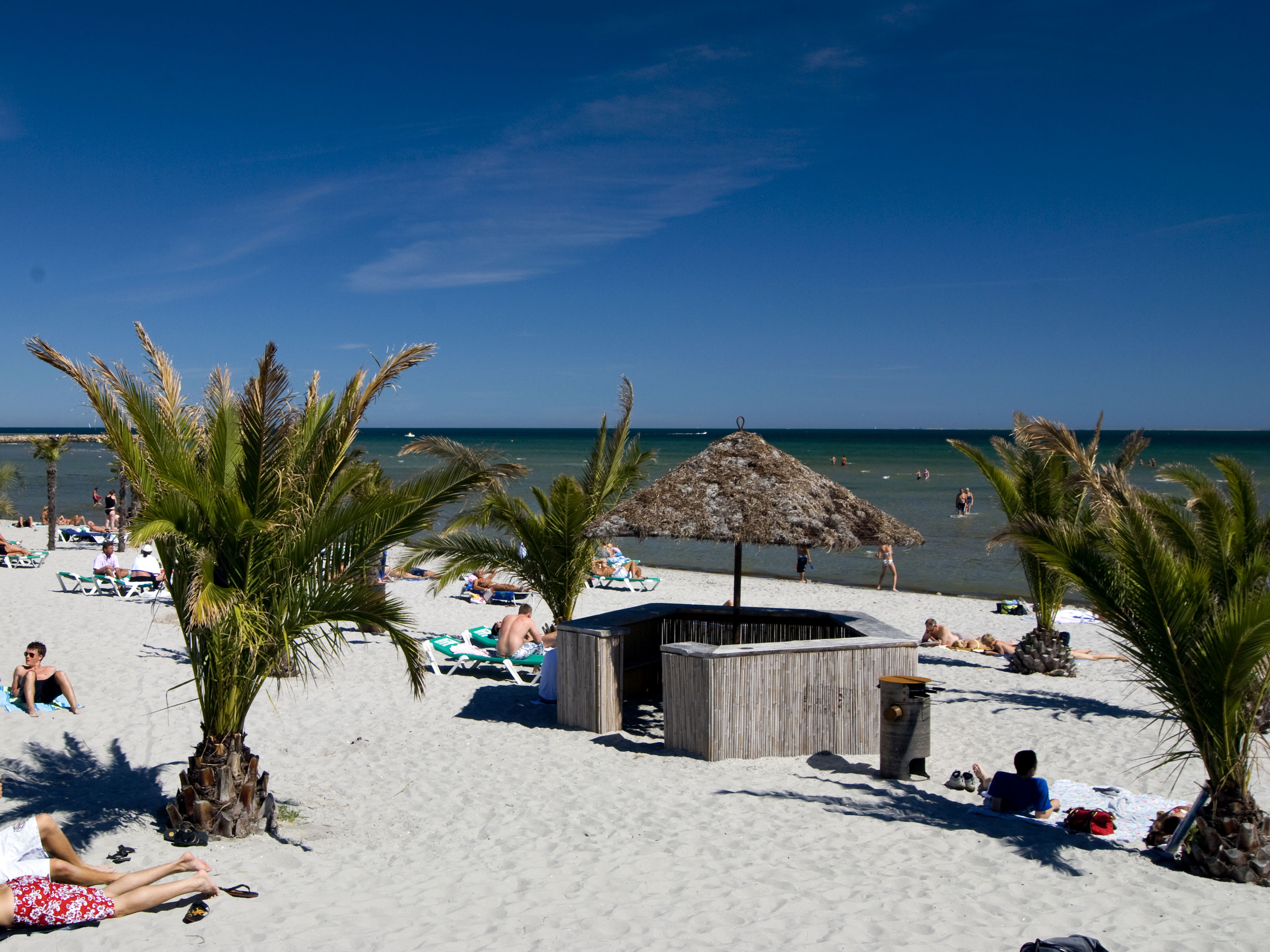 The Palm Beach in Frederikshavn. More info at palmestranden.dkDansk: Frederikshavns Palmestrand. Mere info på palmestranden.dk